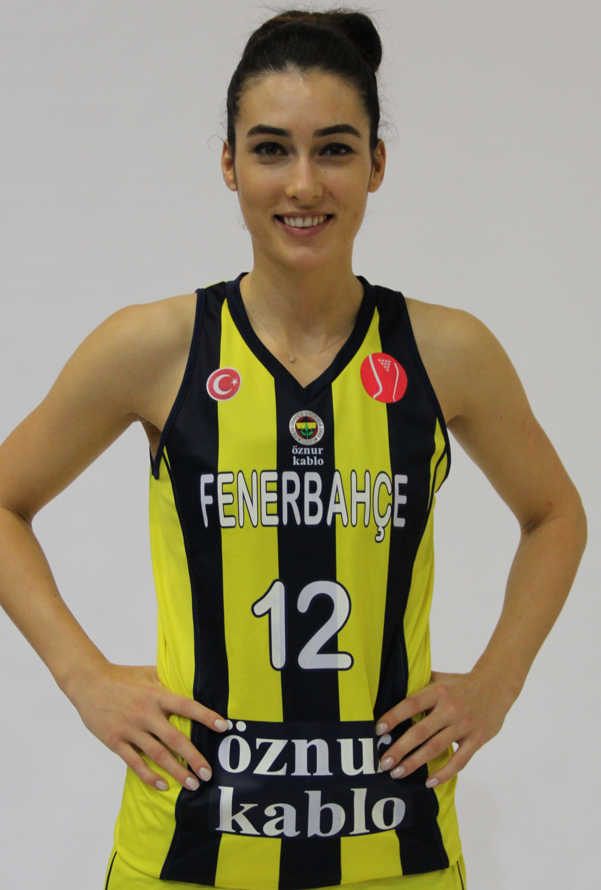 Tuğçe Canıtez 12 Fenerbahçe Women's Basketball 20191031